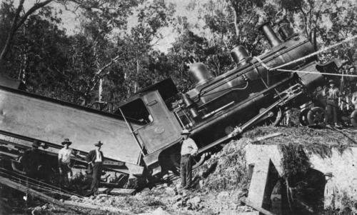 Locomotive derailed on Rockhampton to Mount Chalmers line 1911